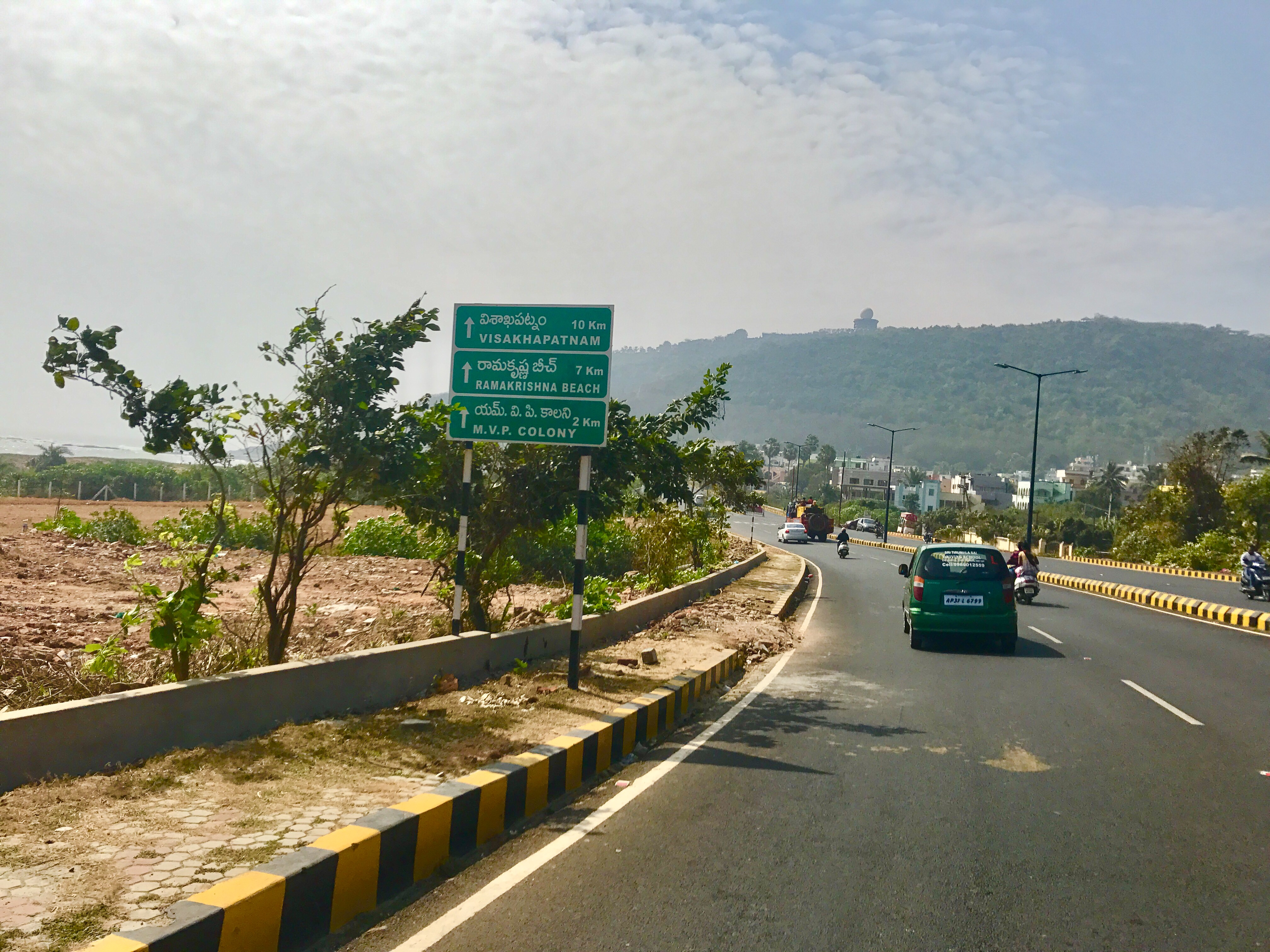 Distance board near vizag